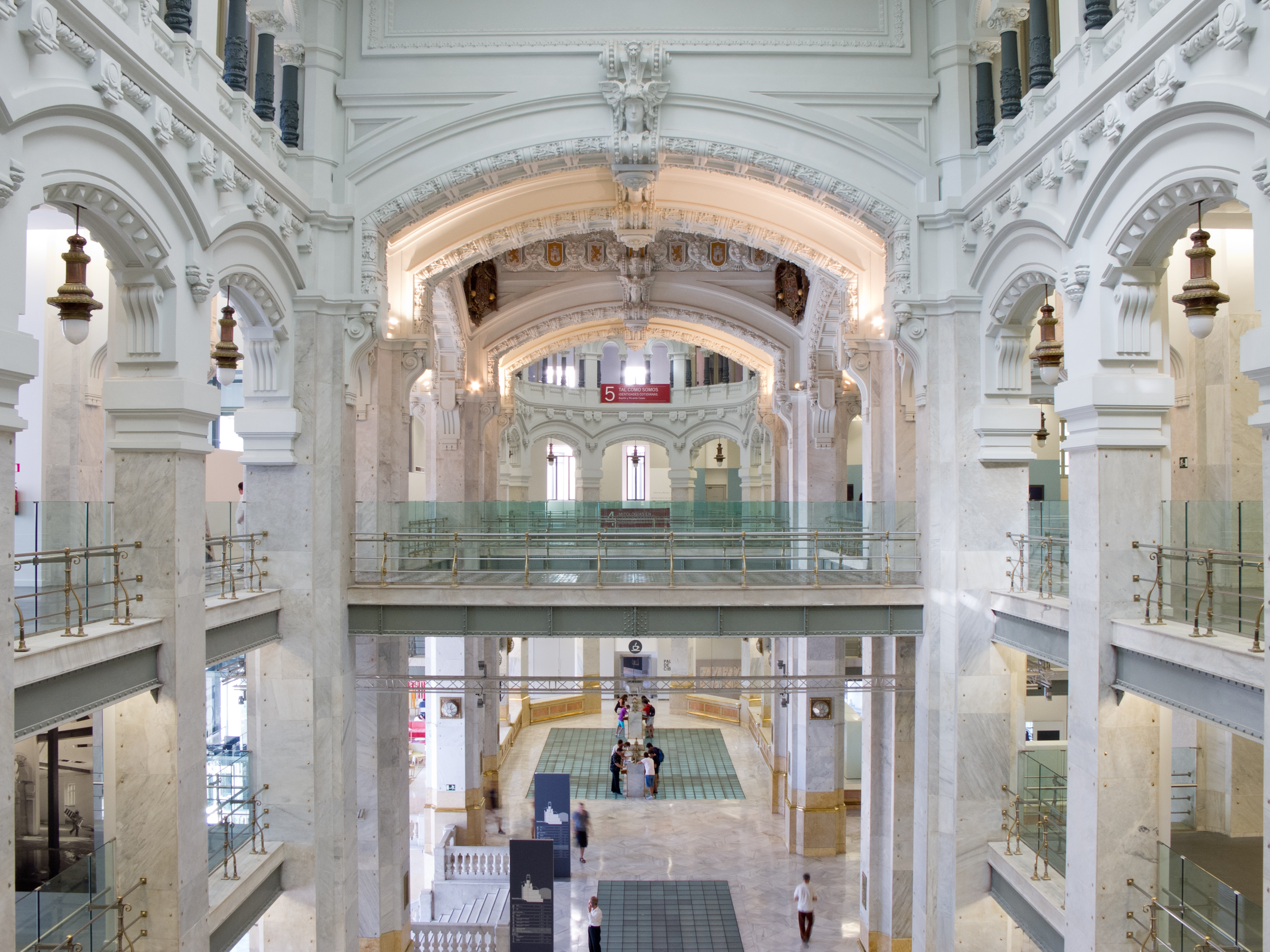 Palace of Communication, Madrid, Spain.